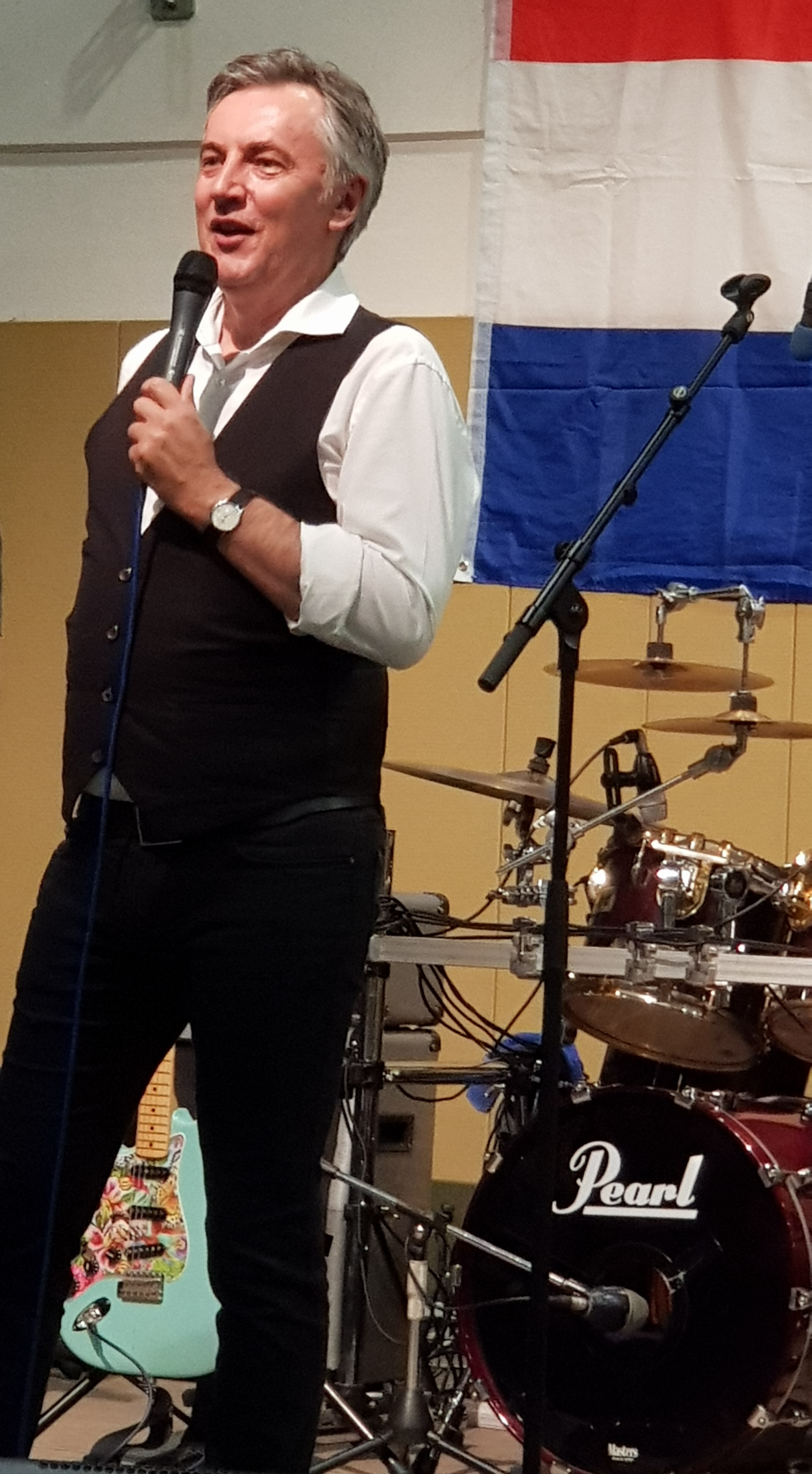 Croatian singer and presidential candidate Miroslav Škoro